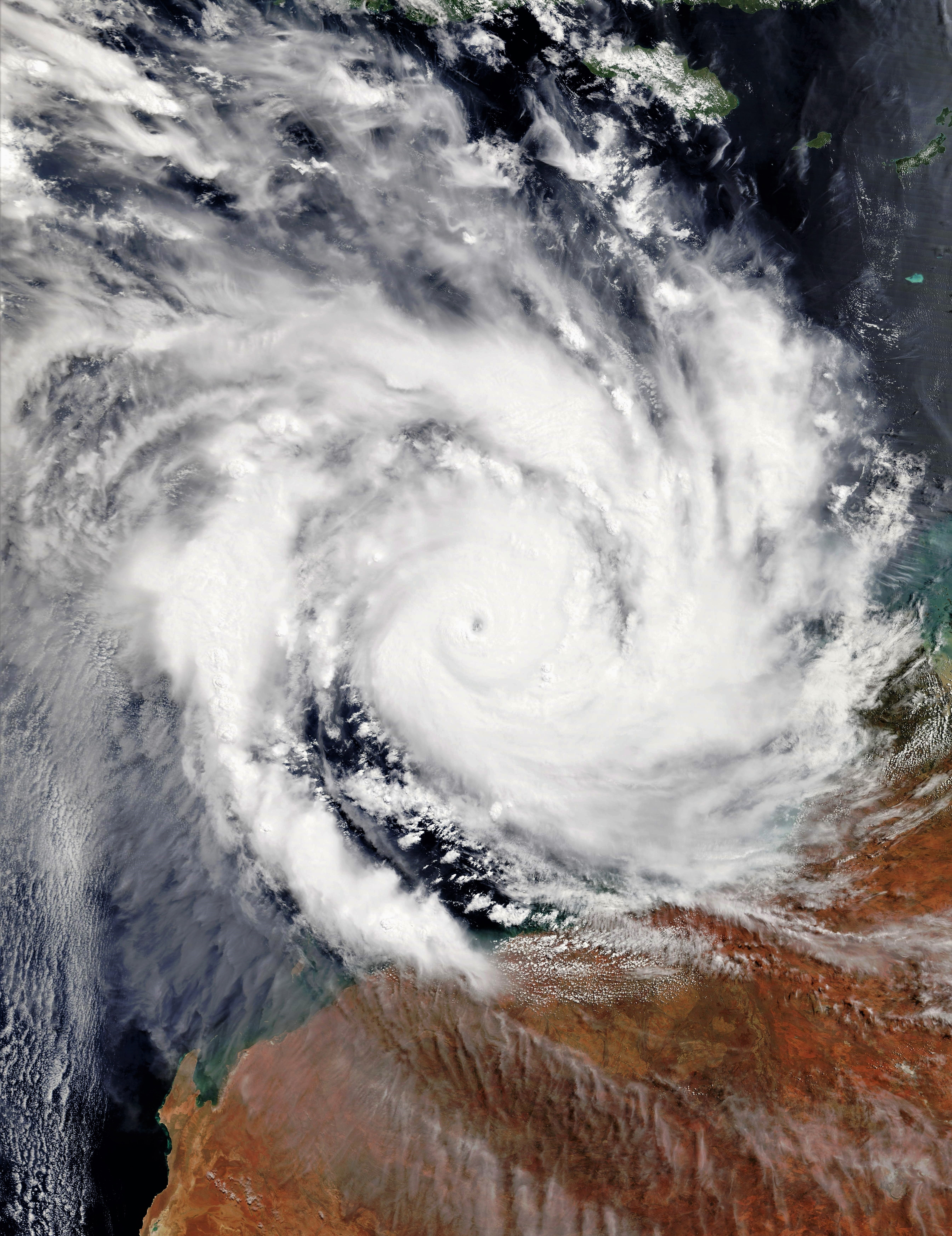 Severe Tropical Cyclone Veronica at peak intensity of Category 4 on both the Australian and Saffir-Simpson scales, a few hundred kilometres north of the town of Port Hedland in Western Australia's Pilbara region.